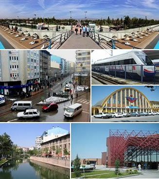 Collage of Eskişehir